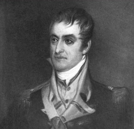 William Wadsworth 1765-1833 (New York Militia Officer)